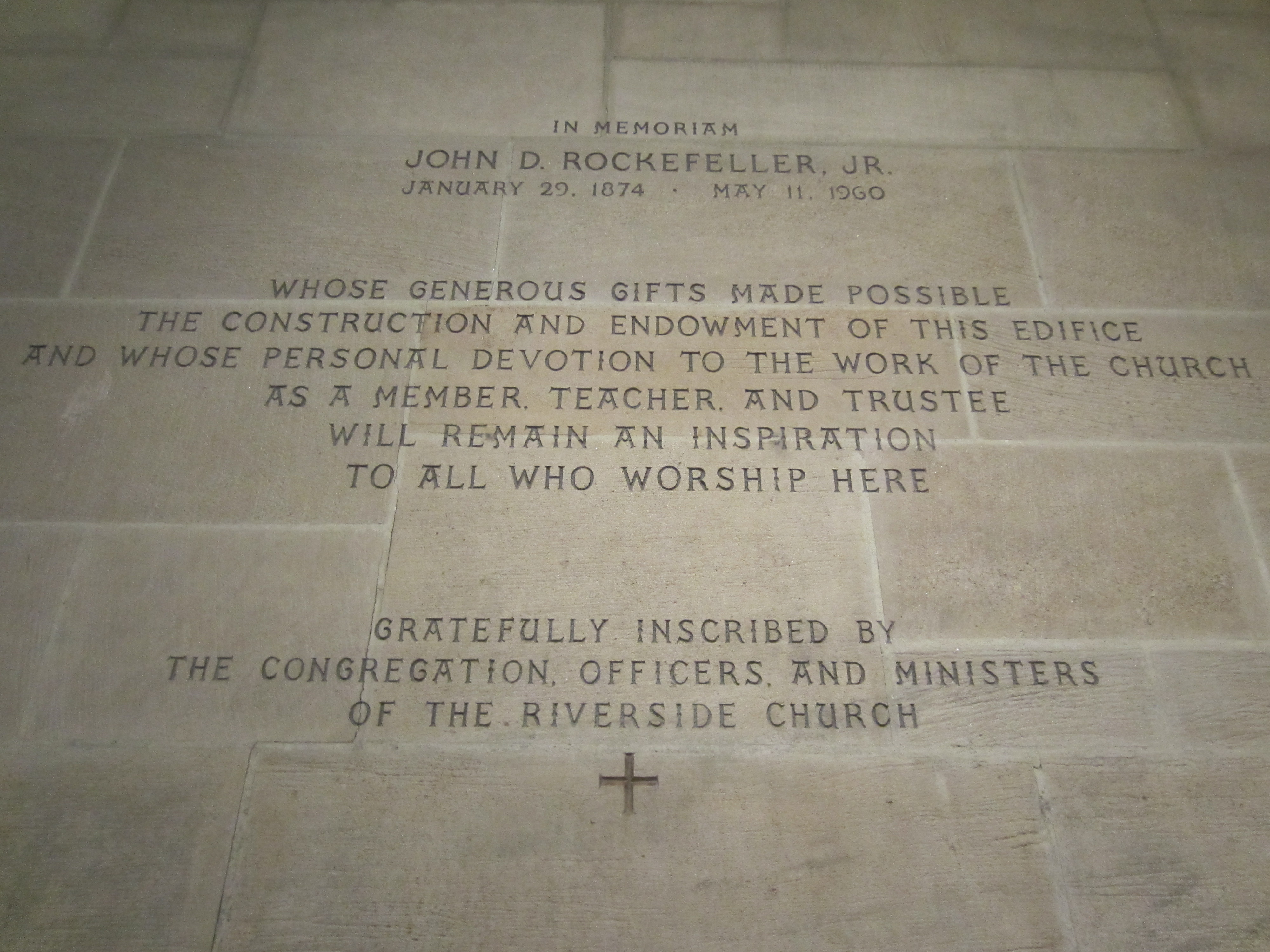 Riverside Church, New York City (June 2014)